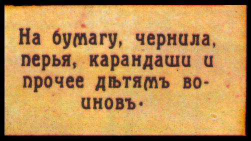 Revenue stamp of voluntary gathering to the aid of children of soldiers, Irkutsk